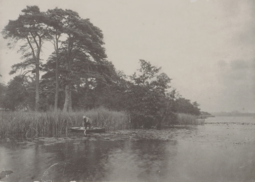 TITLE ON OBJECT: The Haunt of the Pike PUBLISHED TITLE: Wroxham Broad platinum print 21.1 x 29.6 cm.